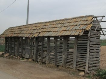 Una de les ceberes que hi ha a Xirivella